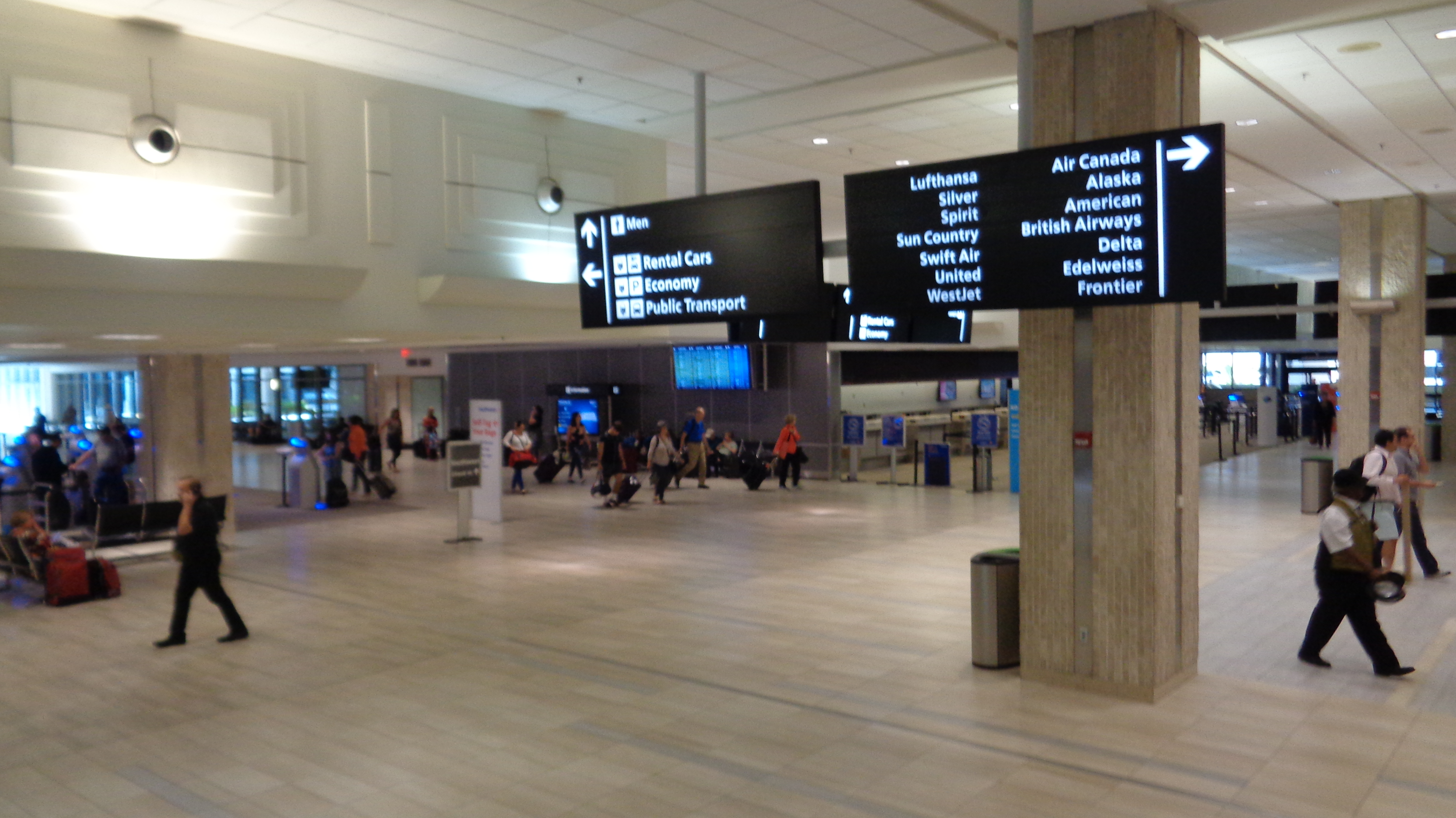 Tampa International Airport in Tampa, Florida.